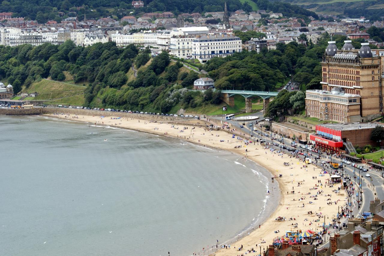 South Bay, Scarborough